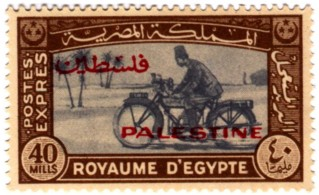 "Express stamp 1944: design type 52a (motorbike) in perforation 13.5. Offset-Lithography on paper with watermark W48. One value of 40m." Zywietz, Tobias.[1]